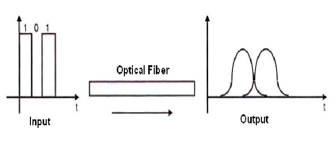 Optical fiber wave distoption phenomenae